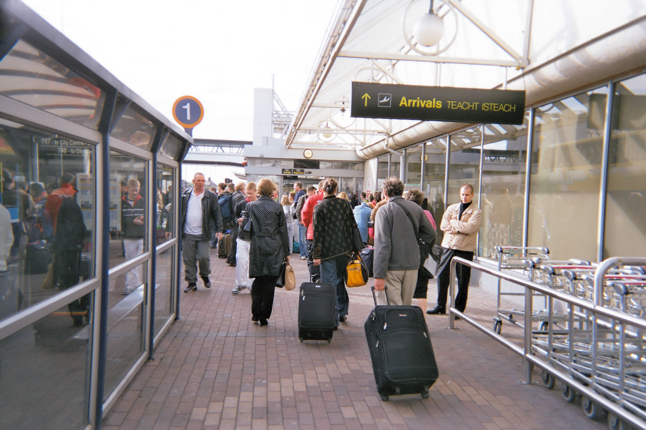 Outside Dublin Airport in Dublin, Ireland. A bus shelter is on the left.